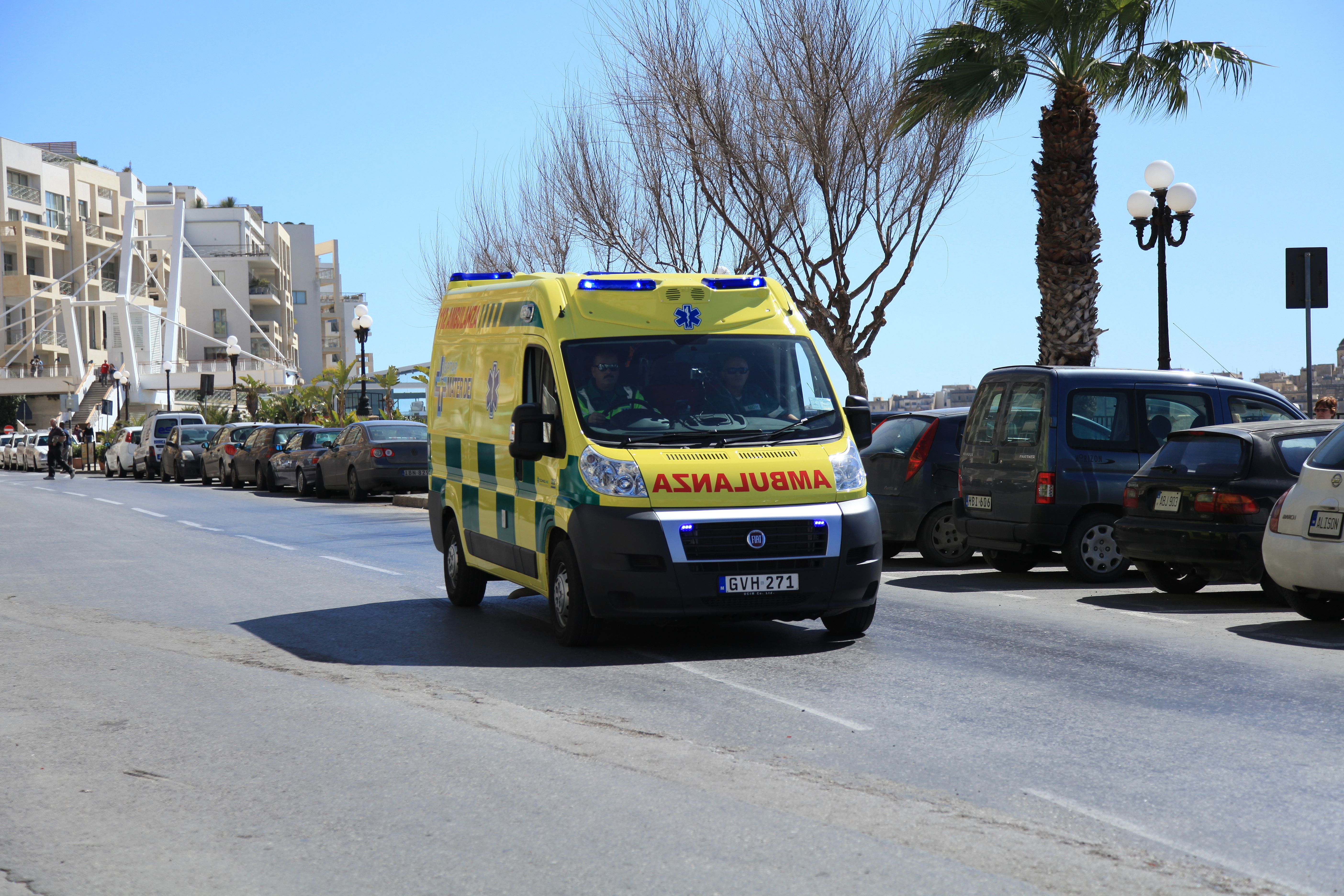 Triq Ix-Xatt ta' Tigné in Sliema, Malta